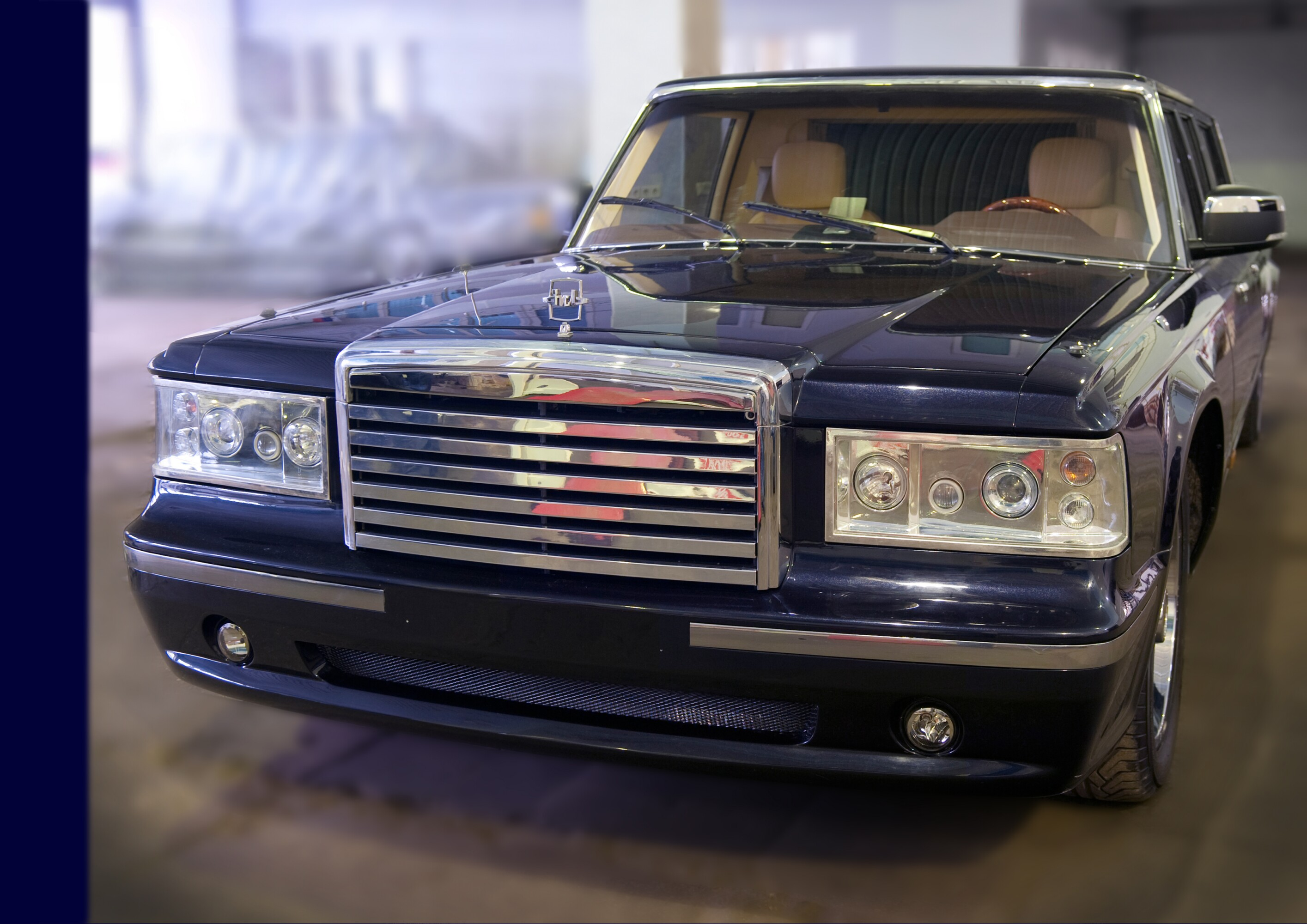 ZIL-4112R massive grille